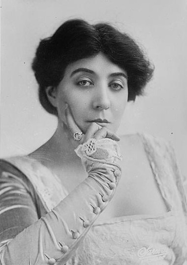 Helen Ware (1877-1939), American actress (photo by N. Sarony).